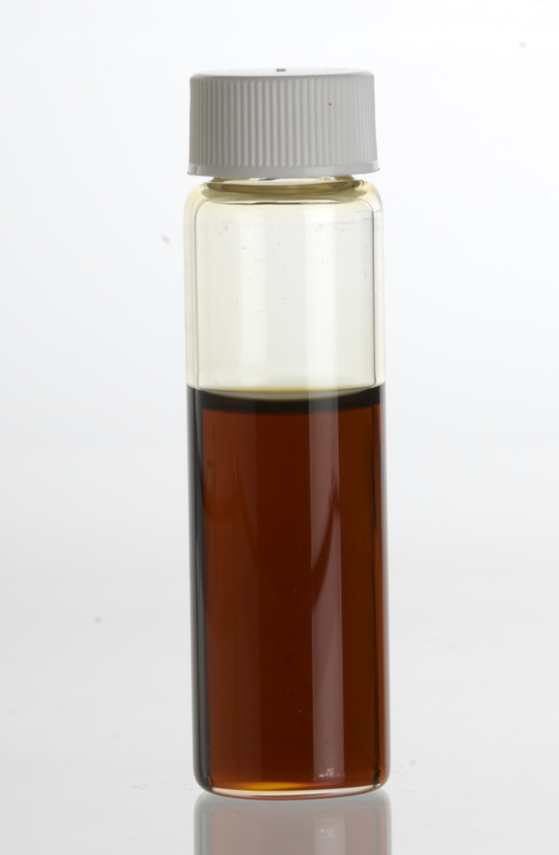 Spikenard (Nardostachys grandiflora DC., jatamansi) Essential Oil in clear glass vial, extracted from the crushed and dried rhizomes by steam distillation.